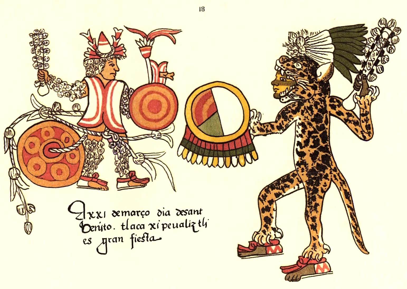 Aztec ritual sacrificial combat named sacrificio gladiatorio in spanish and tlahuahuanaliztli o tlauauaniliztli in nahuatl, as portrayed in the folio 30r of the Codex Magliabechiano.